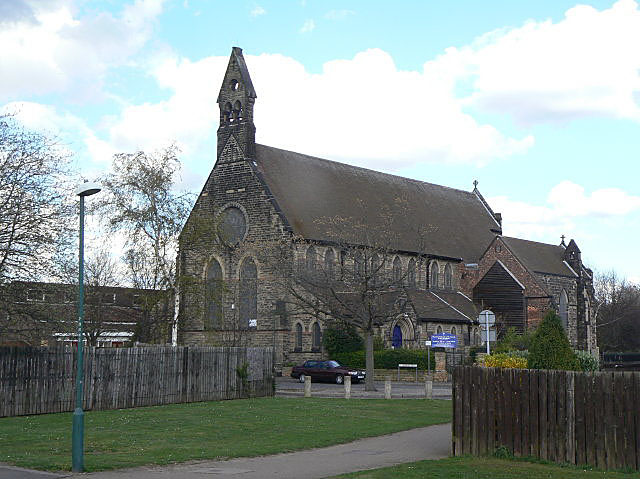 St George's in the Meadows